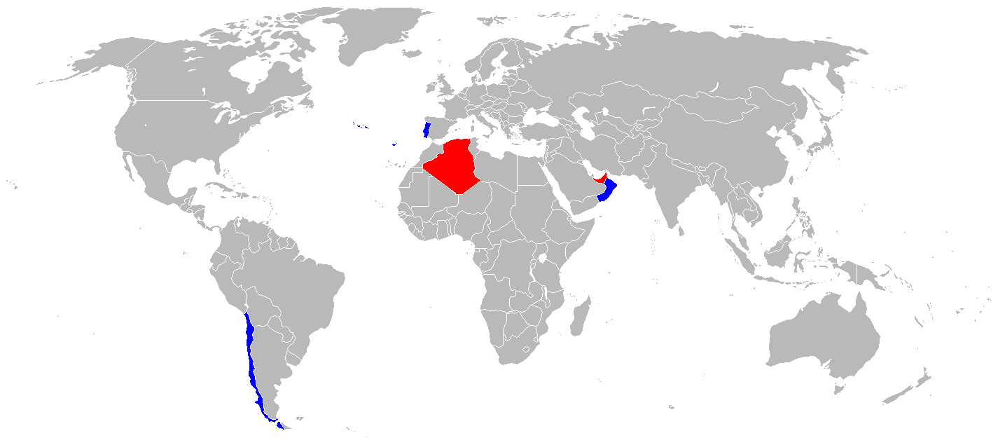 World operators of the EADS CASA C-295 Persuader in blue.